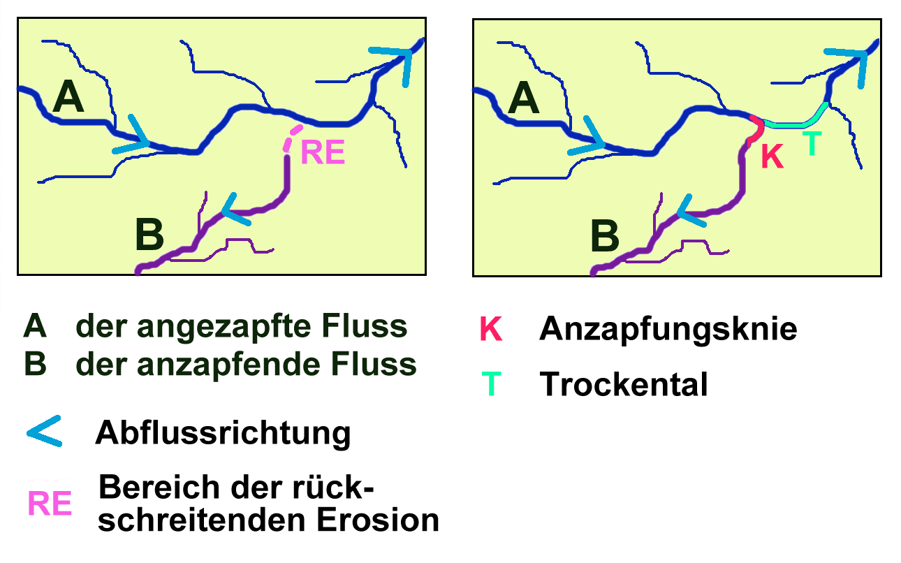 Diagram showing :stream capture with labels in German